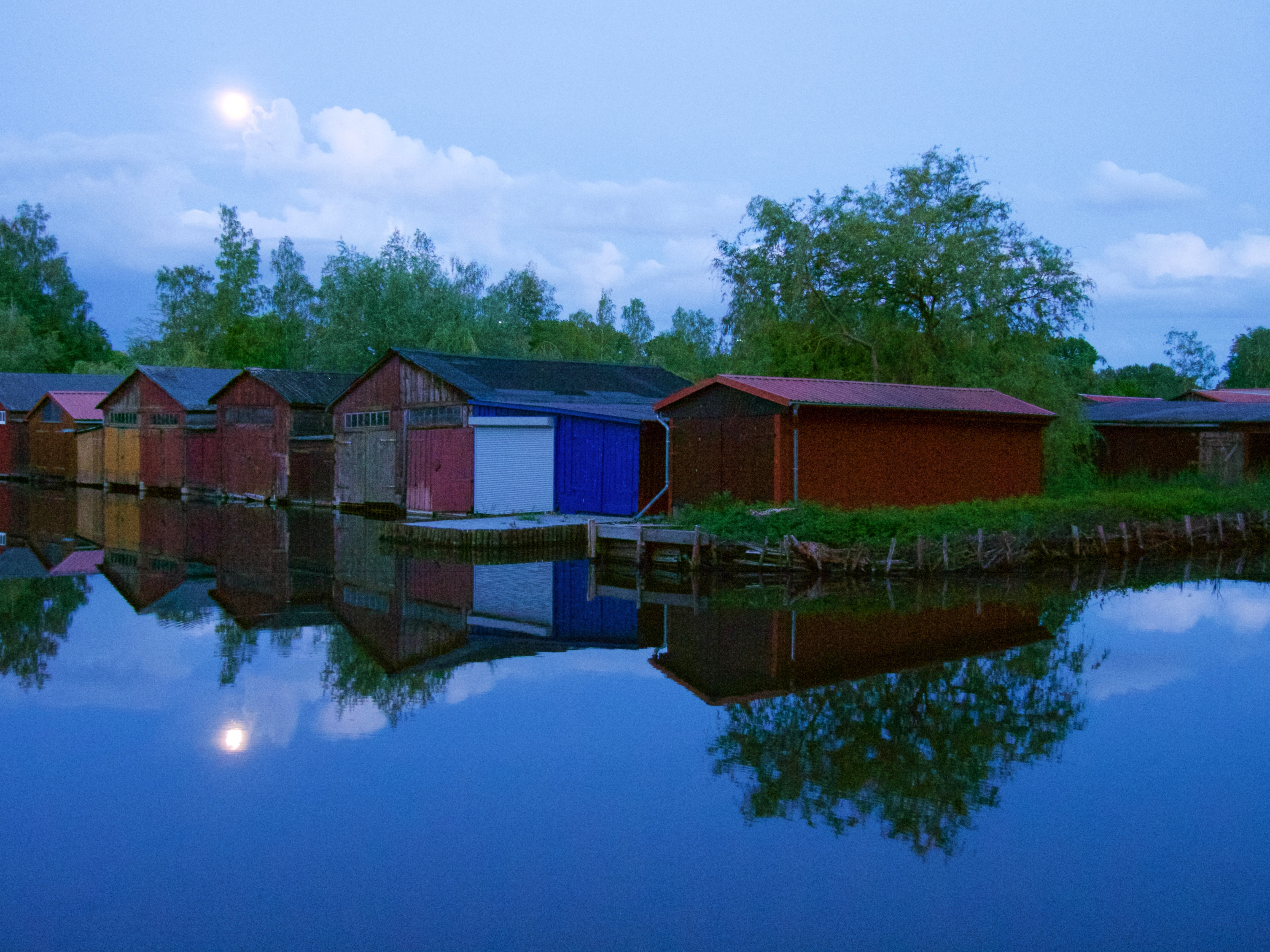 Full moon rising above boathouses in Neubrandenburg.